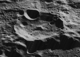 Oblique view of Belyaev crater, facing west